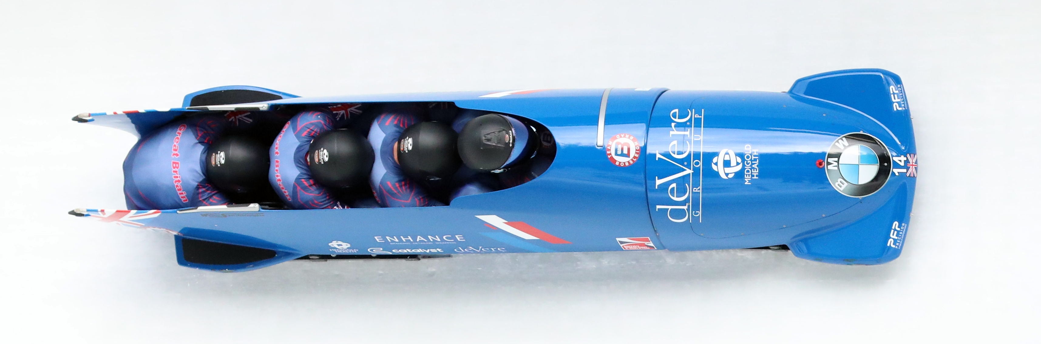 3rd run 4-man bobsleigh at the Bobsleigh and Skeleton World Championships 2020 in Altenberg